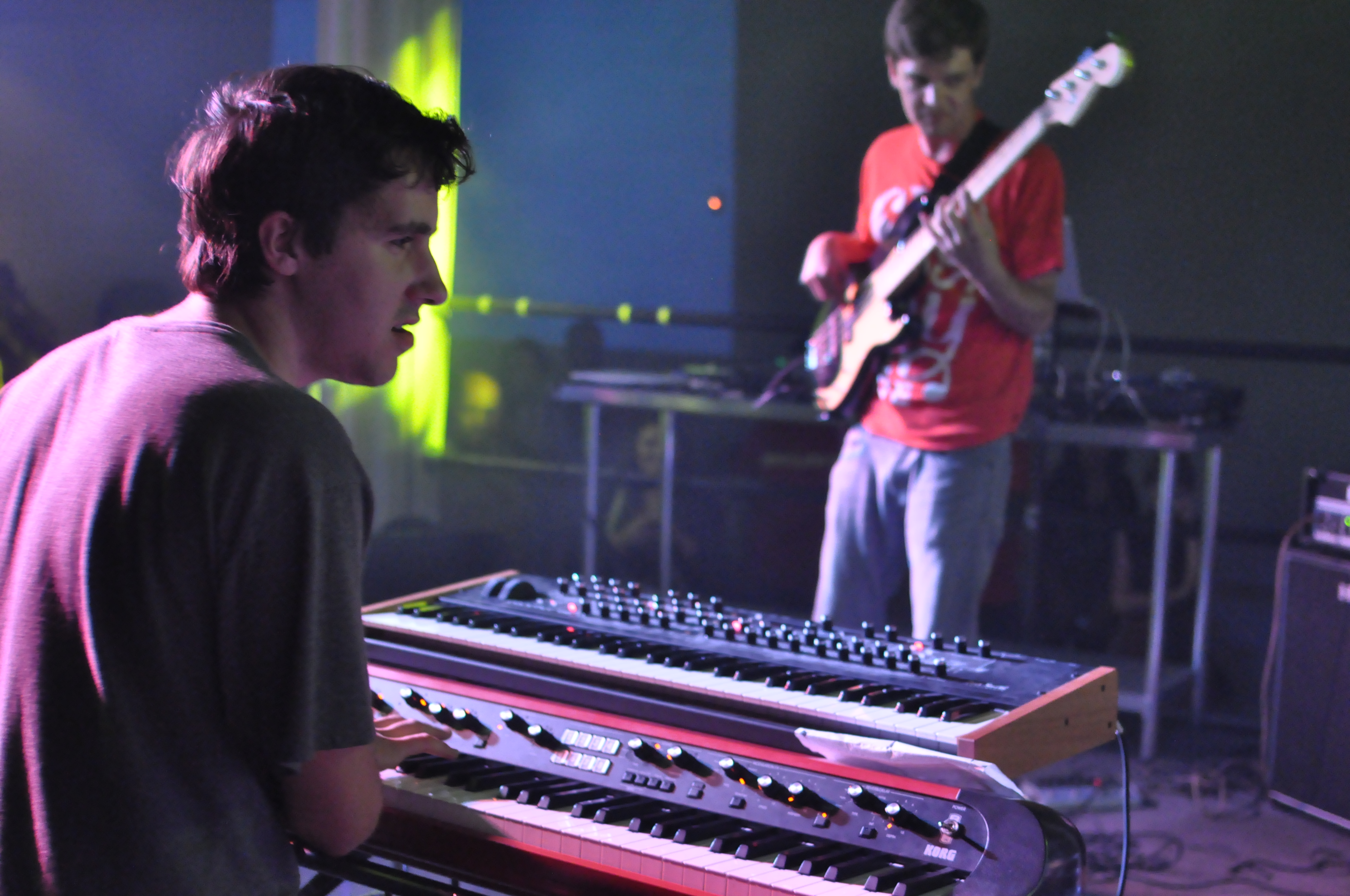 BadBadNotGood performing live in 2012